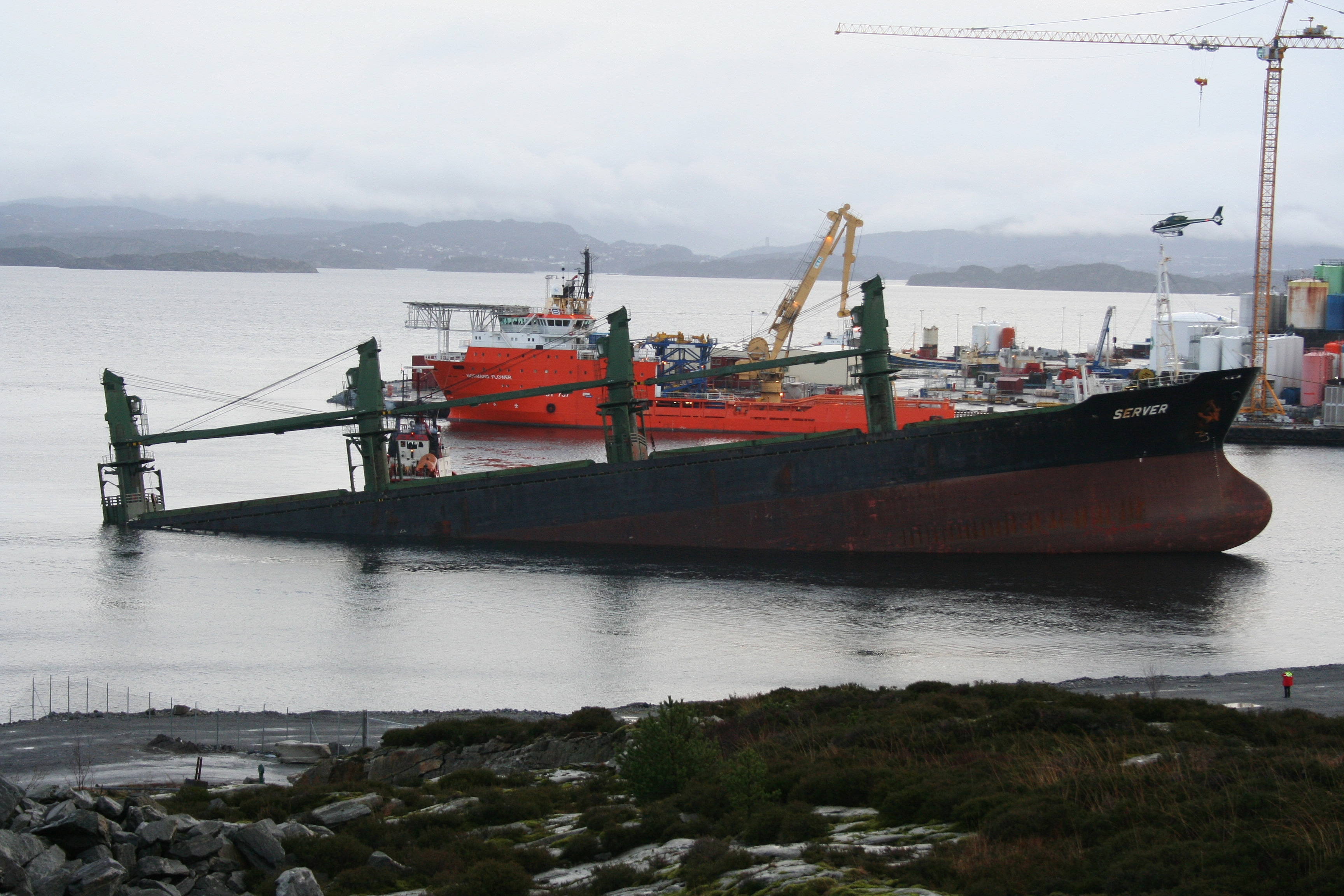 Another view of the bow of M/S "Server" which ran aground, broke in two and sunk 1800, 12 January 2007. The bow of the ship was towed to the Coast Center Base at Ågotnes, Sotra (outside Bergen, Norway). IMO number: 8307117 Callsign: P3XR6